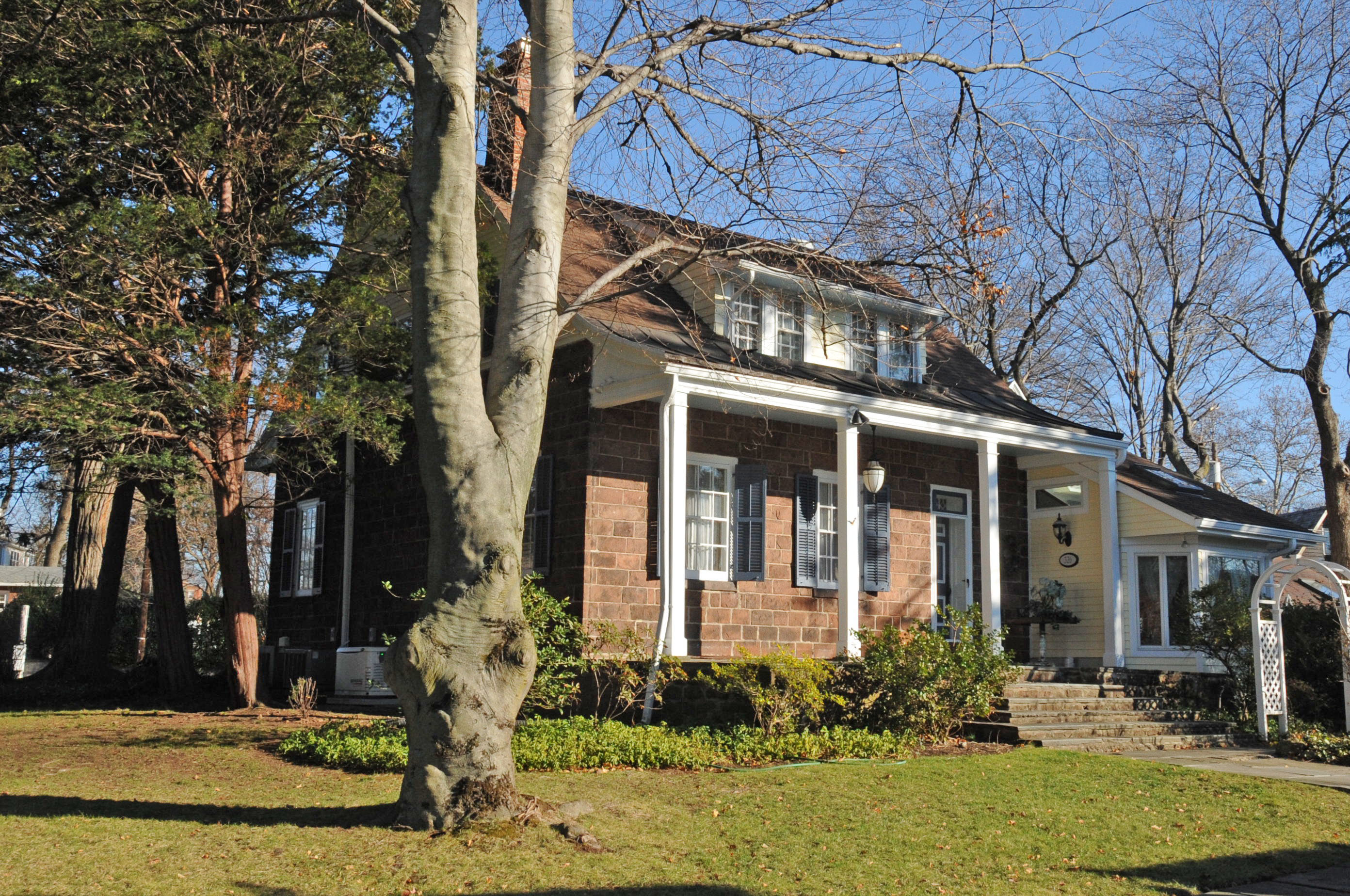 ORIGINAL HOUSE BUILT IN 1780 WITH A SIGNIFICANT UPGRADE IN 1860